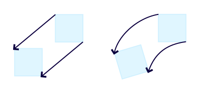 Diagram illustrating vorticity in a fluid: One way to visualize vorticity is this: consider a fluid flowing. Imagine that some tiny part of the fluid is instantaneously rendered solid, and the rest of the flow removed. If that tiny new solid particle would be rotating, rather than just translating, then there is vorticity in the flow.